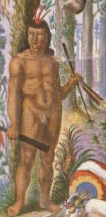 Indian of Brazil - Detail of the cover of the book Historia Naturalis Brasiliae, Amsterdam, 1647.